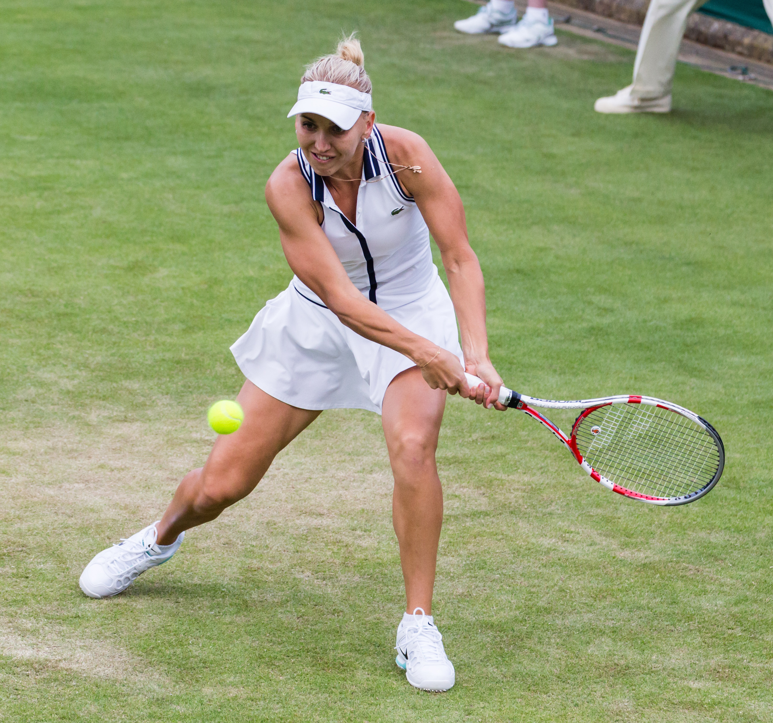 Elena Vesnina in the first round of Wimbledon 2013 against Andrea Hlaváčková.